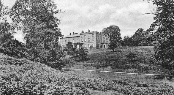 Alderwasley Hall, now a school, but once home to the Hurt family. Picture est date is 1905